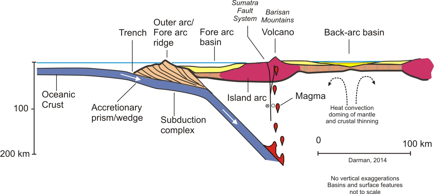 A schematic cross section of Sumatra showing the subduction complex in the region